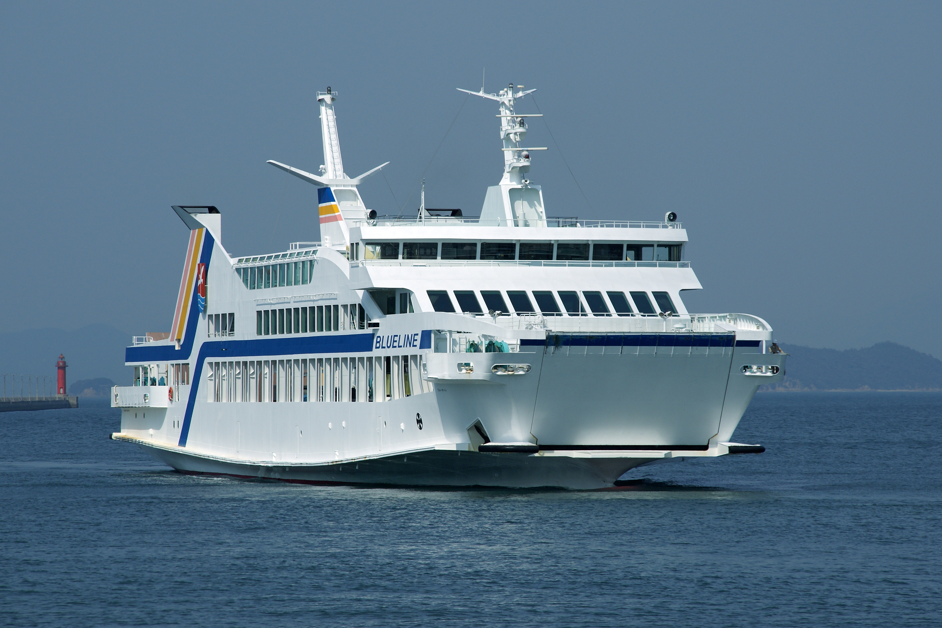 "Blue Line" at Takamatsu port in Takamatsu Kagawa Prefecture, Japan IMO number: 9257101 Callsign: JL6627 )